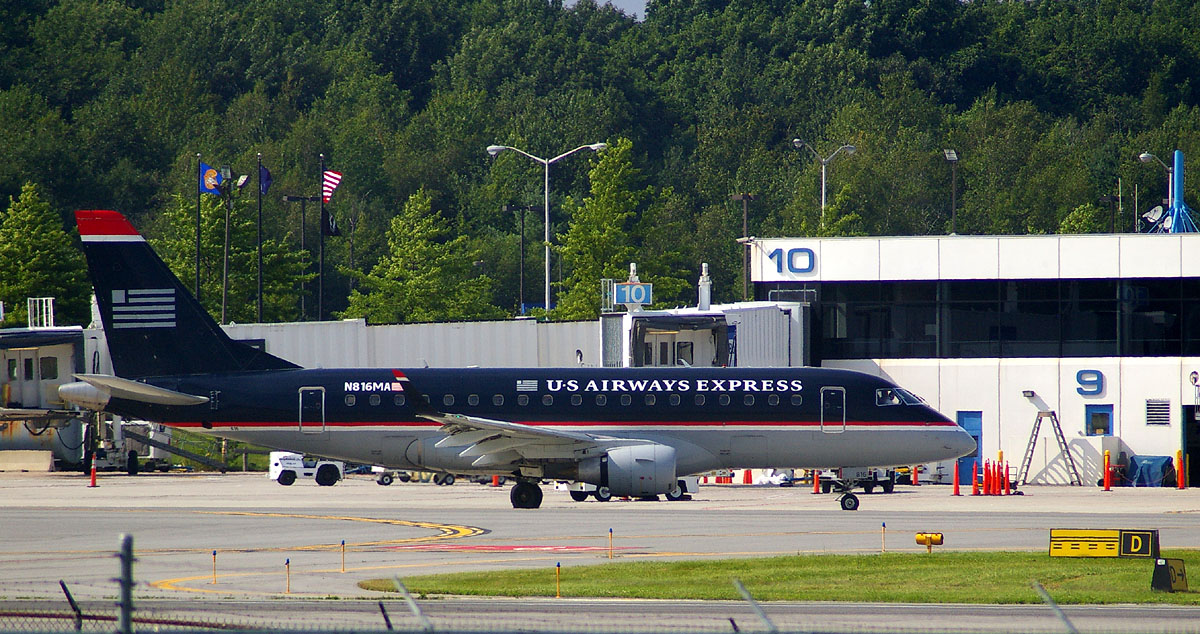 US Airways Express (Embraer 170) at Portland International Jetport. Photo taken from public property.